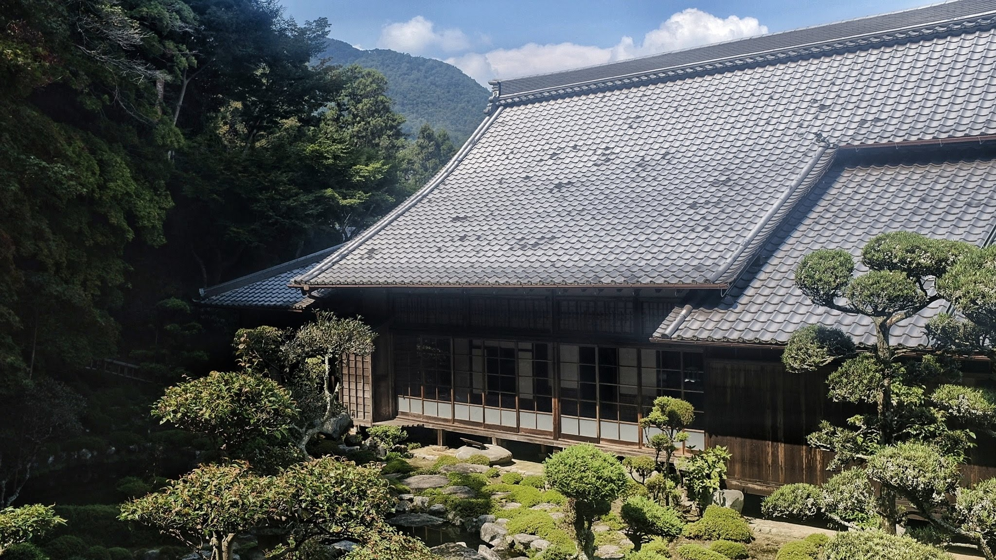 Taimadera Sainanin temple